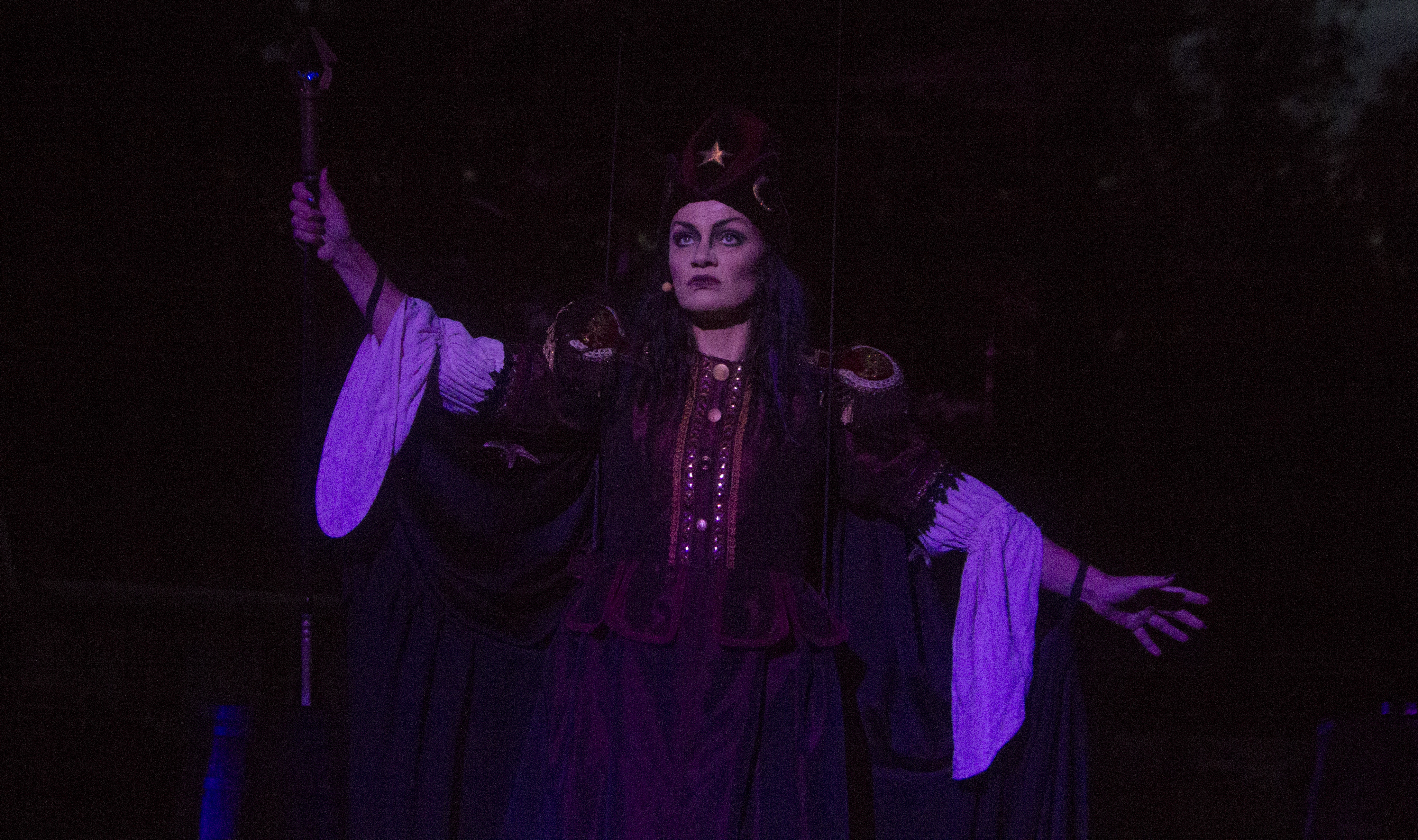 Ellen-Birgitte Winther as Miriam av Gral in Kaptein Sabeltann og Den Forheksede Øya